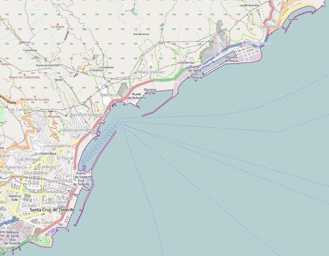 Open Street Map of the Port of Santa Cruz de Tenerife. This map may be incomplete, and may contain errors. Don't rely solely on it for navigation.